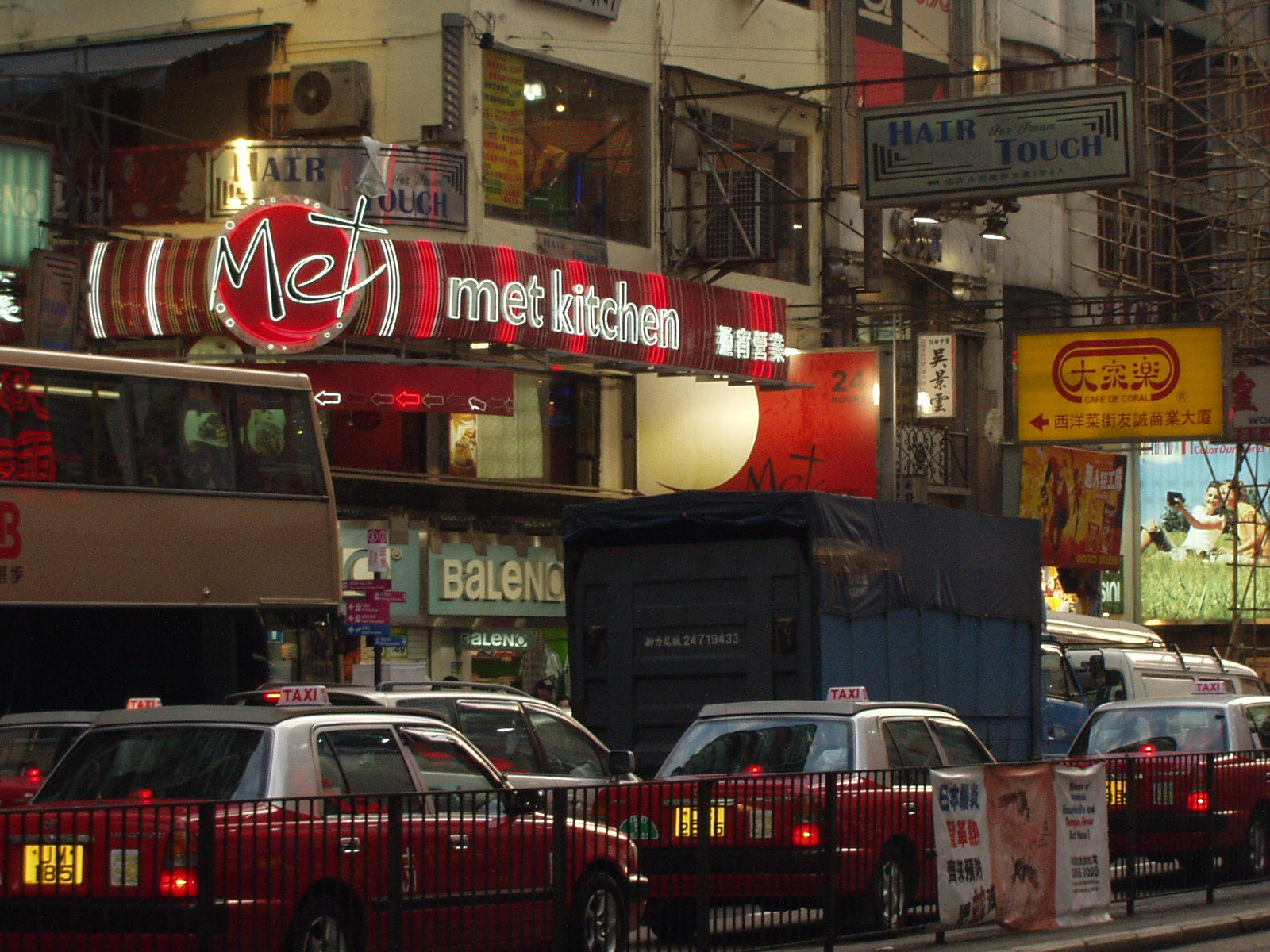 Traffic Congestion in Mong Kok, Hong Kong (Taken by Tsui Sing Yan Eric)